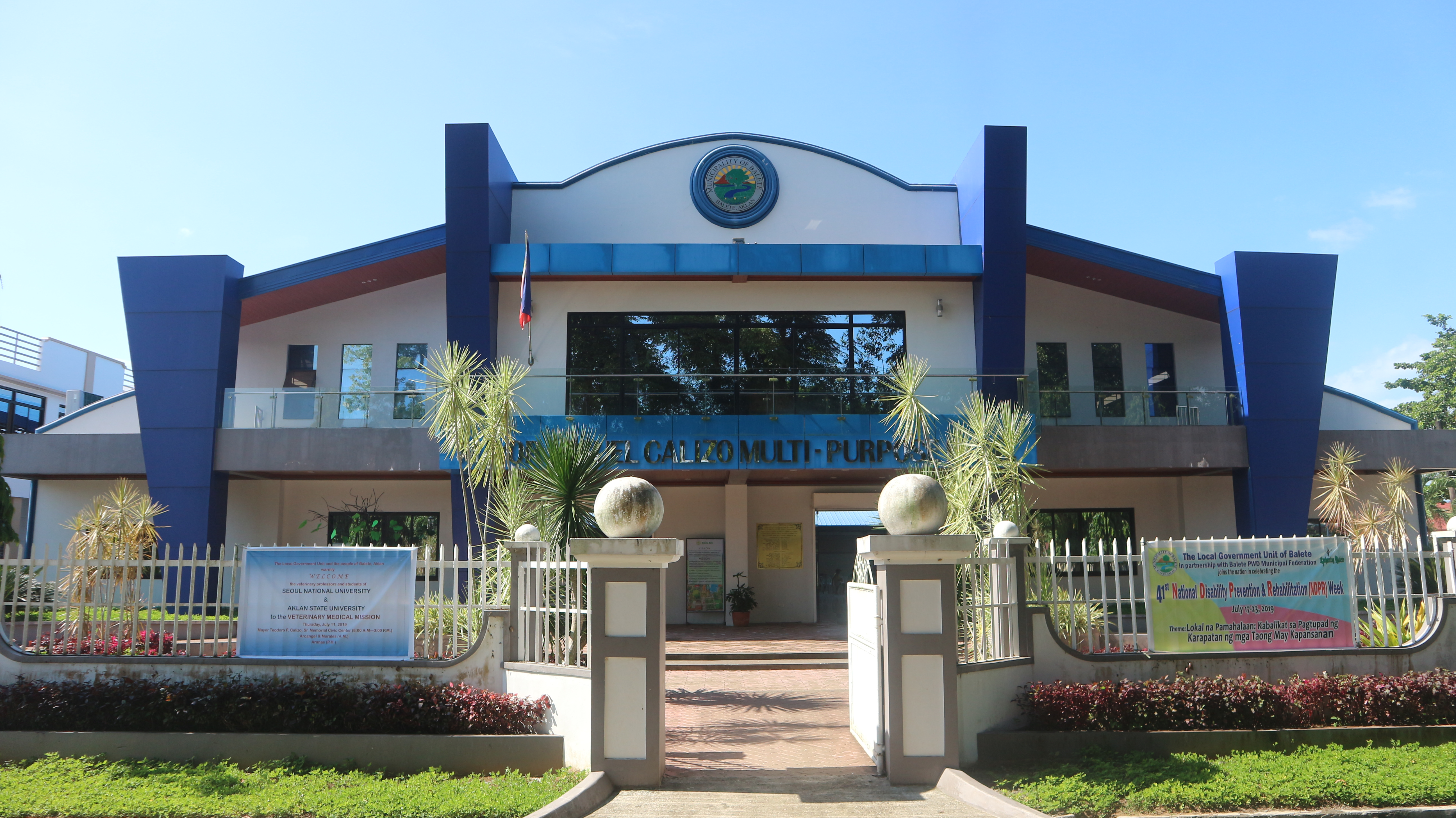 Municipal Hall of Balete, Aklan